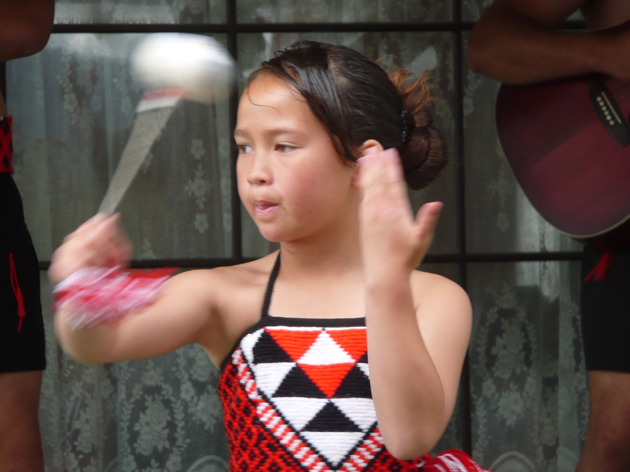 Young Maori girl in traditional dress dancing a poi.